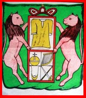 Coat of arms of the Bagrationi dynasty